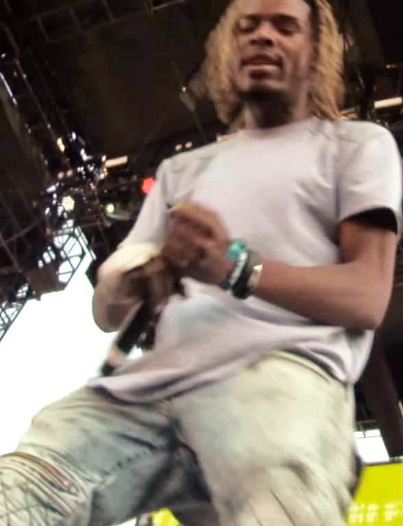 Fetty Wap performing at the Hard Summer Music Festival on August 2, 2015.